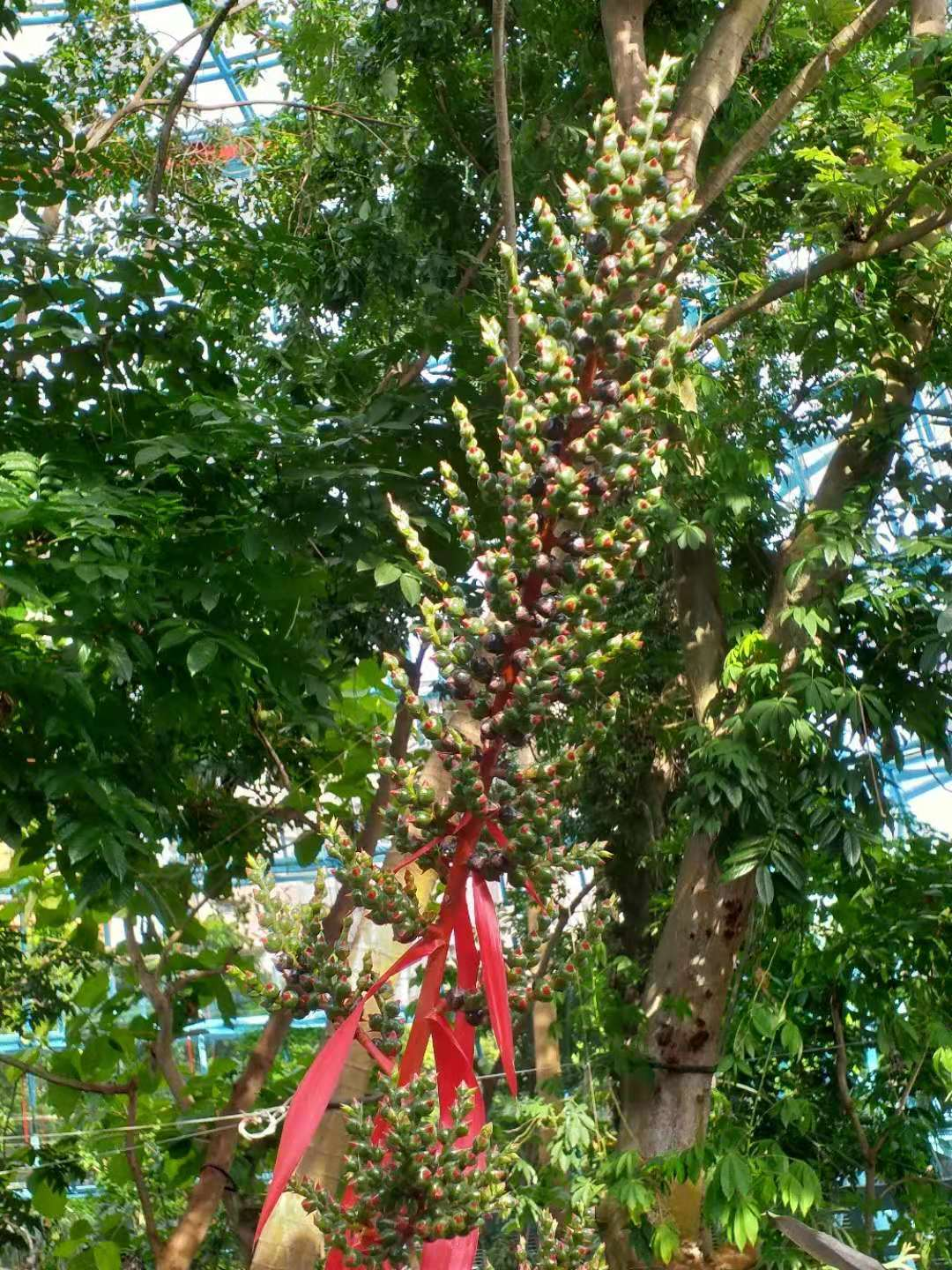 Red bract and inflorescence of Aechmea bracteata. Taichung Botanical Garden, Taiwan.